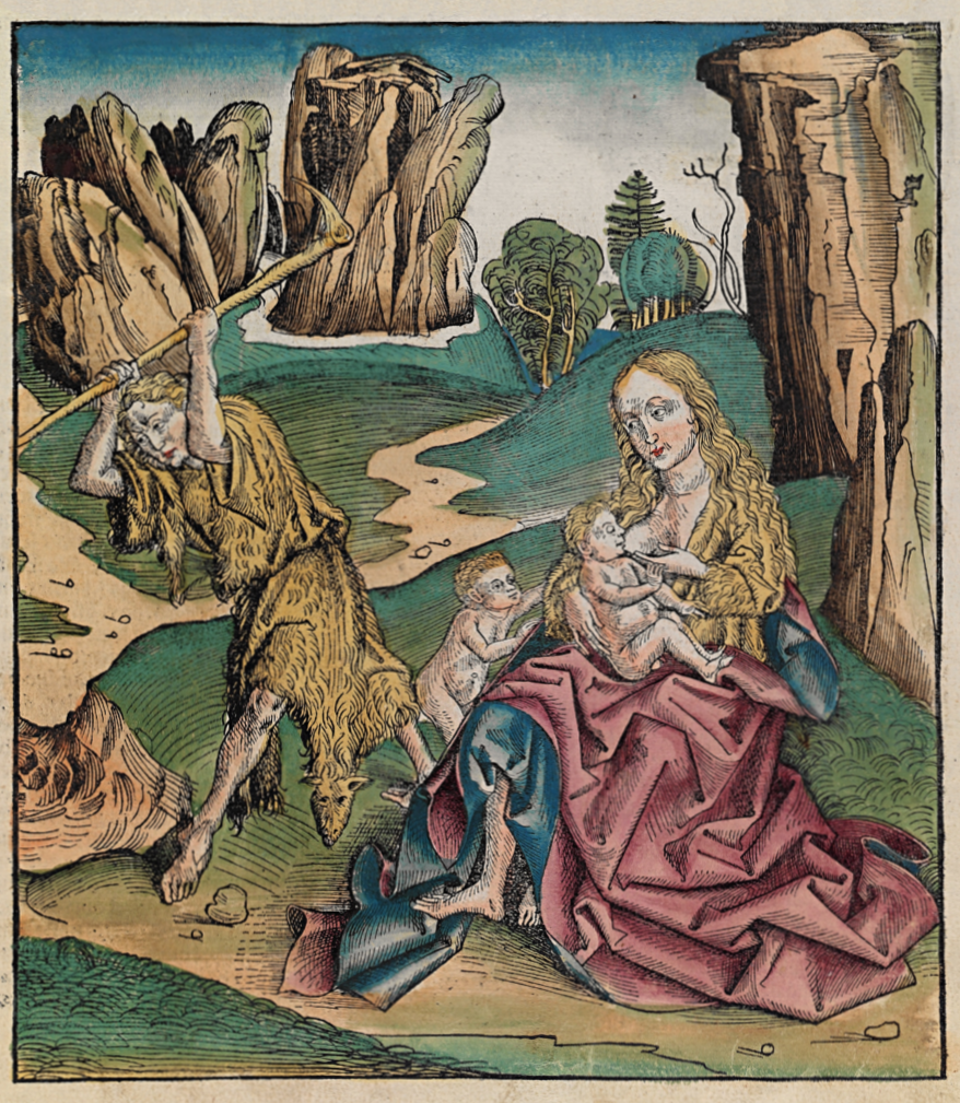 This is a part of a scan of an historical document: Title: Schedelsche Weltchronik or Nuremberg Chronicle